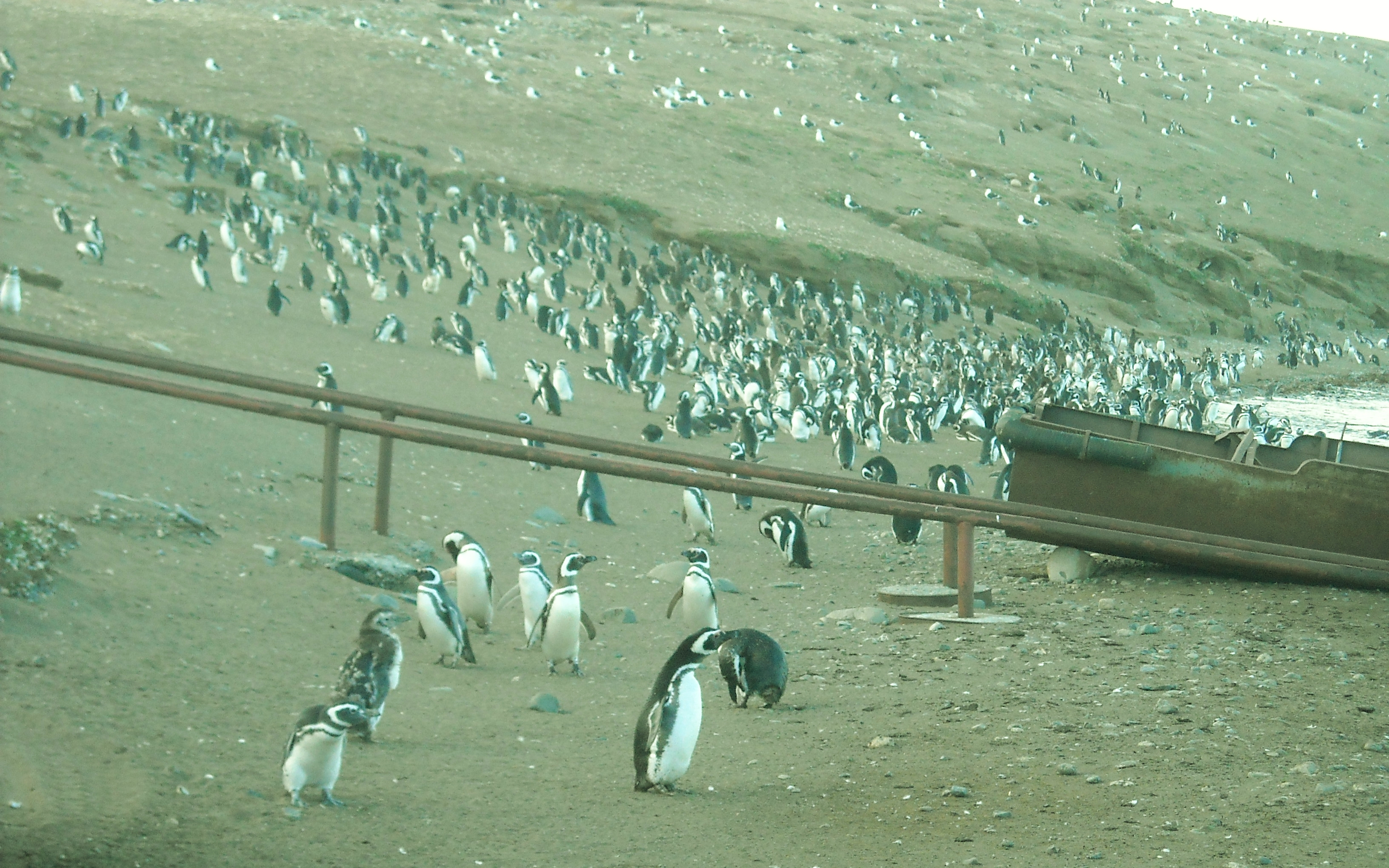 Isla Magdalena en Punta Arenas de vuelta de su dia de pesca.